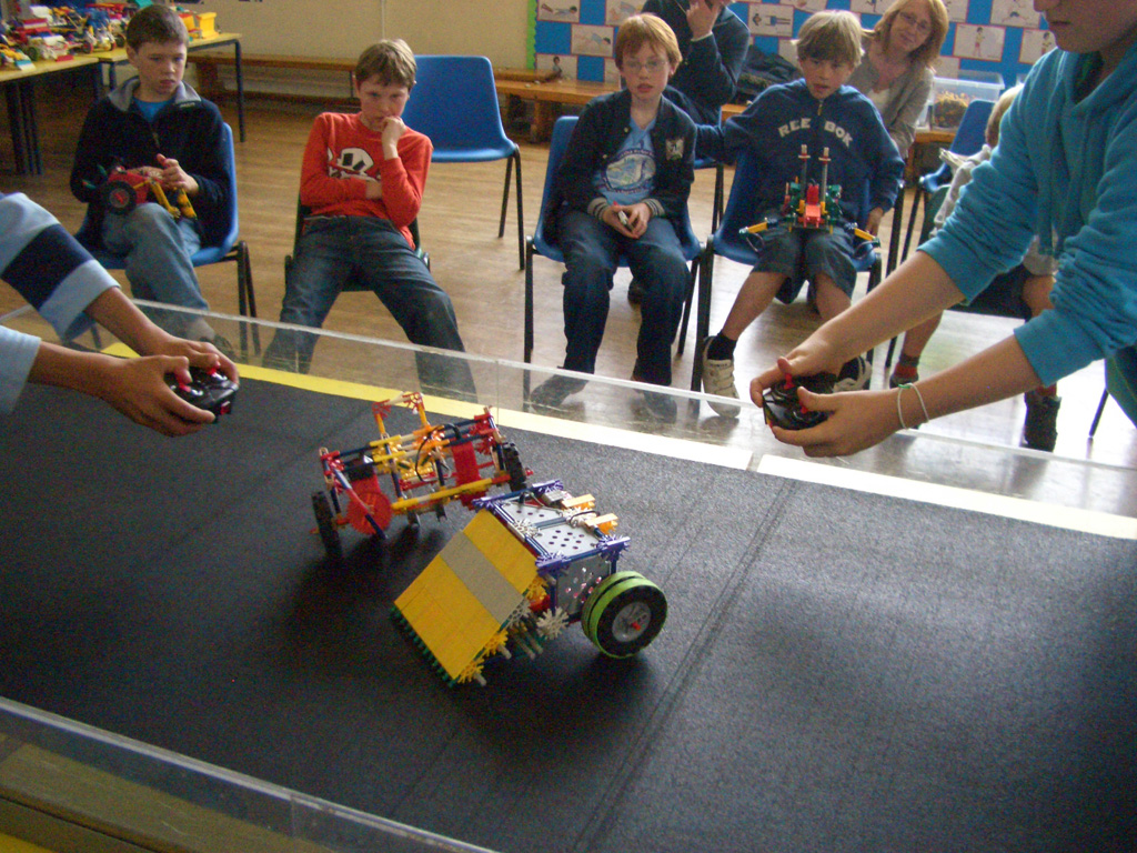 My own photograph, taken May 2009. Source